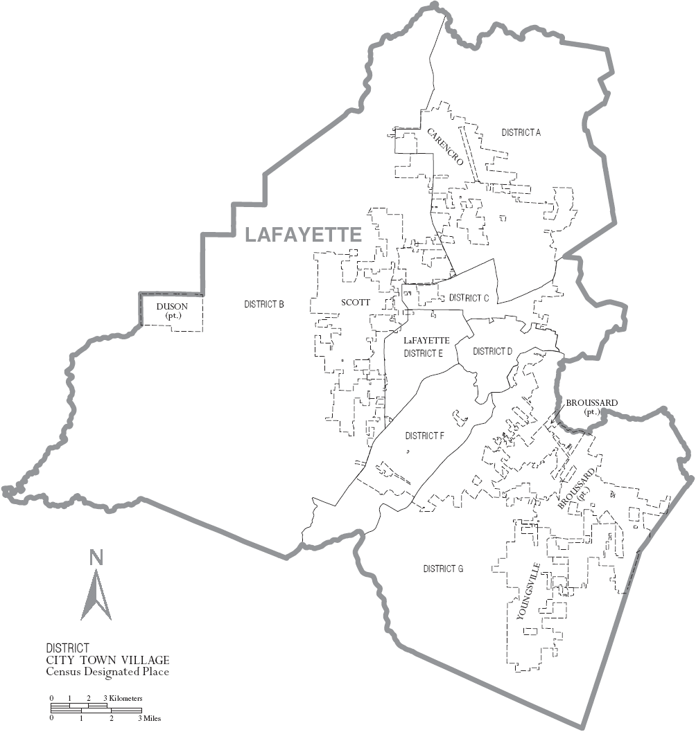 Map of Lafayette Parish, Louisiana, United States with municipal and district boundaries